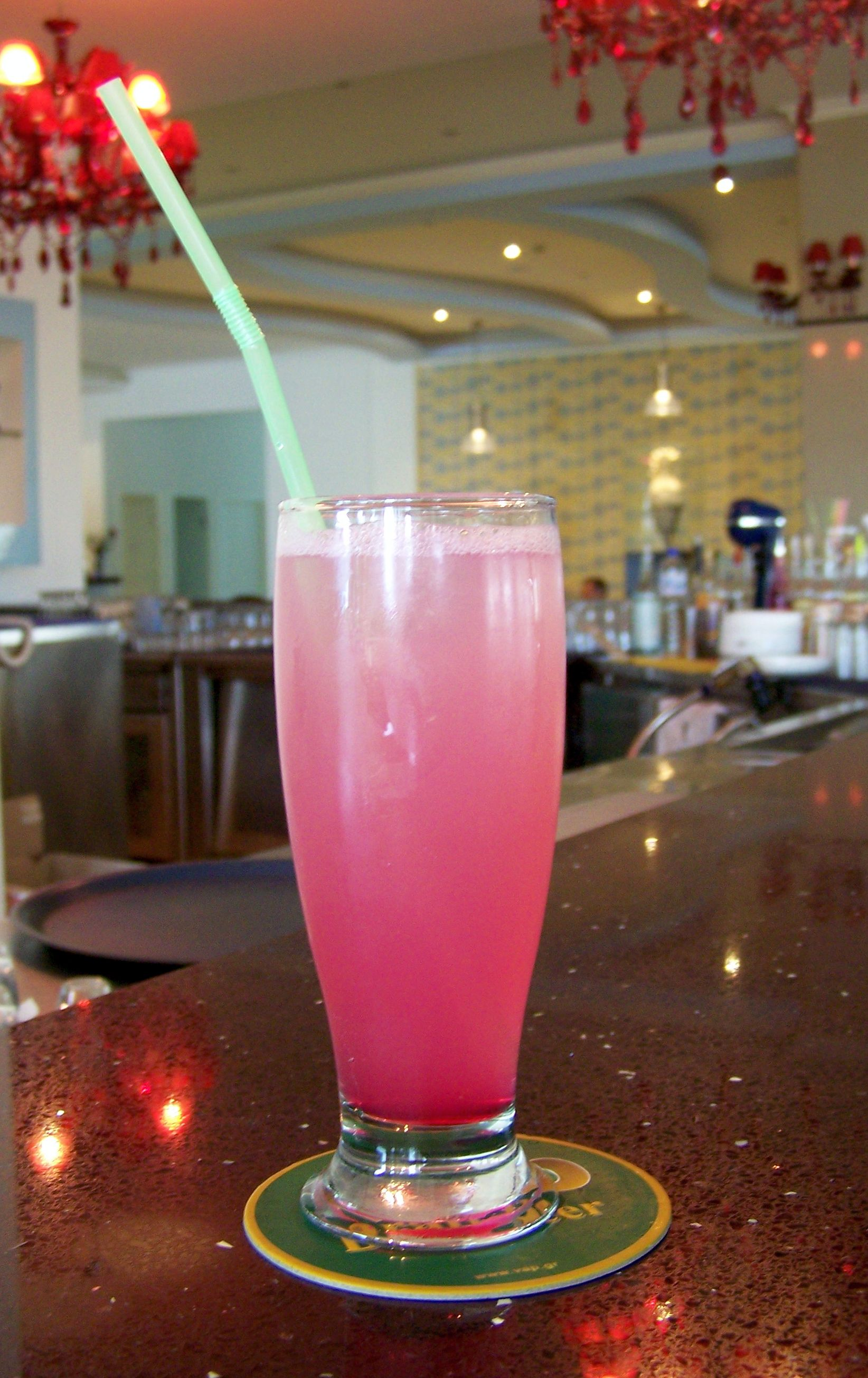 Cocktail Pink Lady